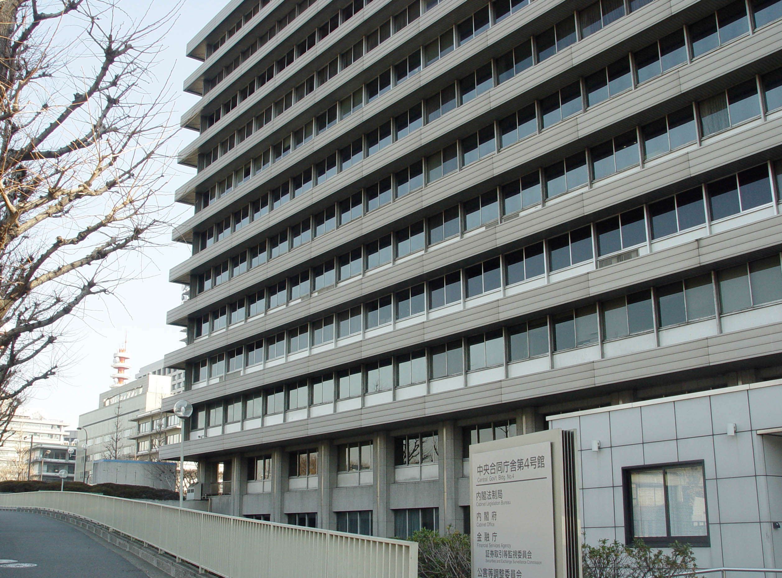 Public office building, Japan: The Financial Services Agency The Cabinet Legislation Bureau The Cabinet Office The Securities and Exchange Surveilance Commission The Environmental Dispute Coordination Commission 庁舎： 金融庁 内閣法制局 内閣府 証券取引等監視委員会 公害等調整委員会